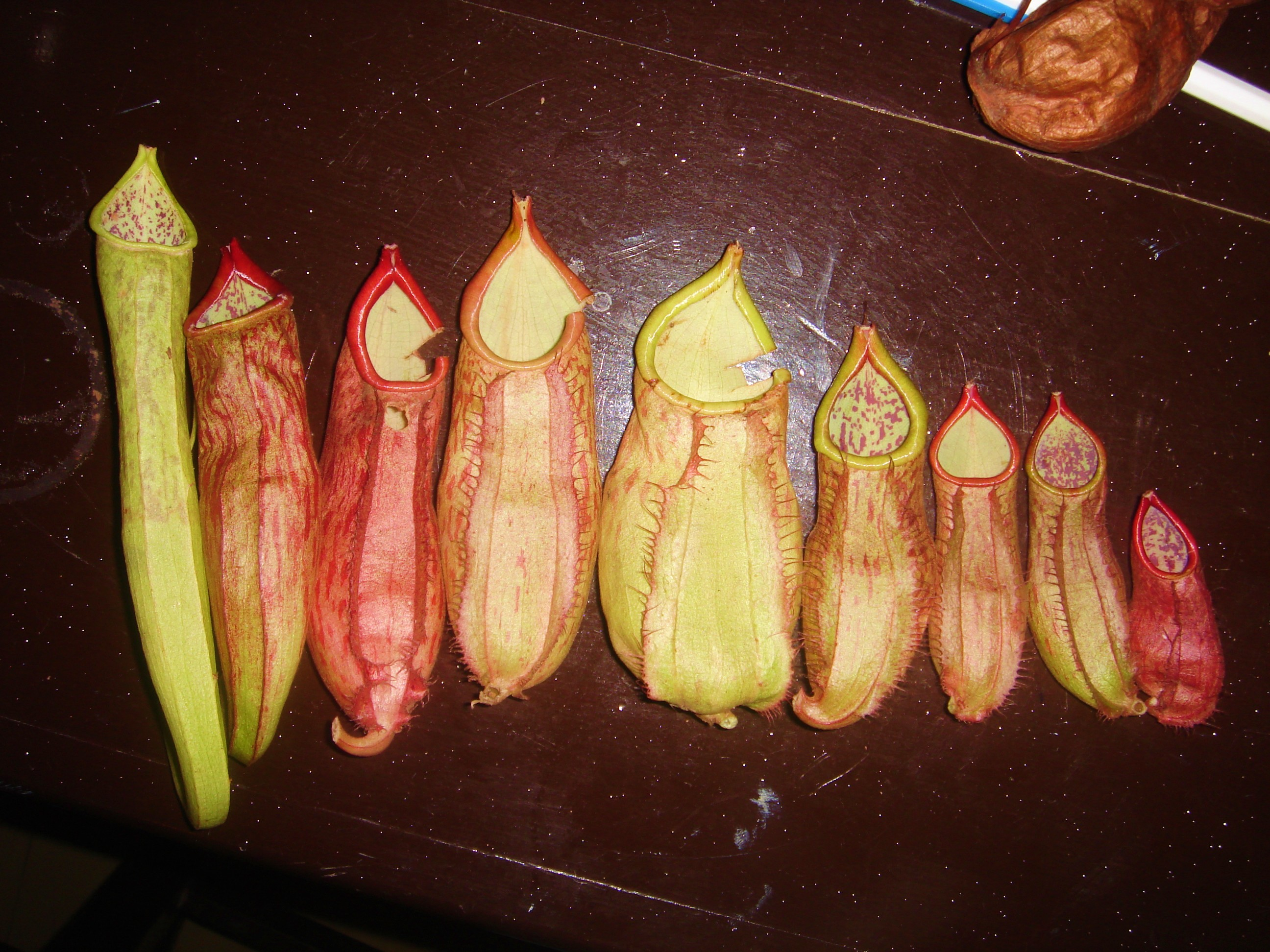 Nepenthes chang pitchers, Thailand